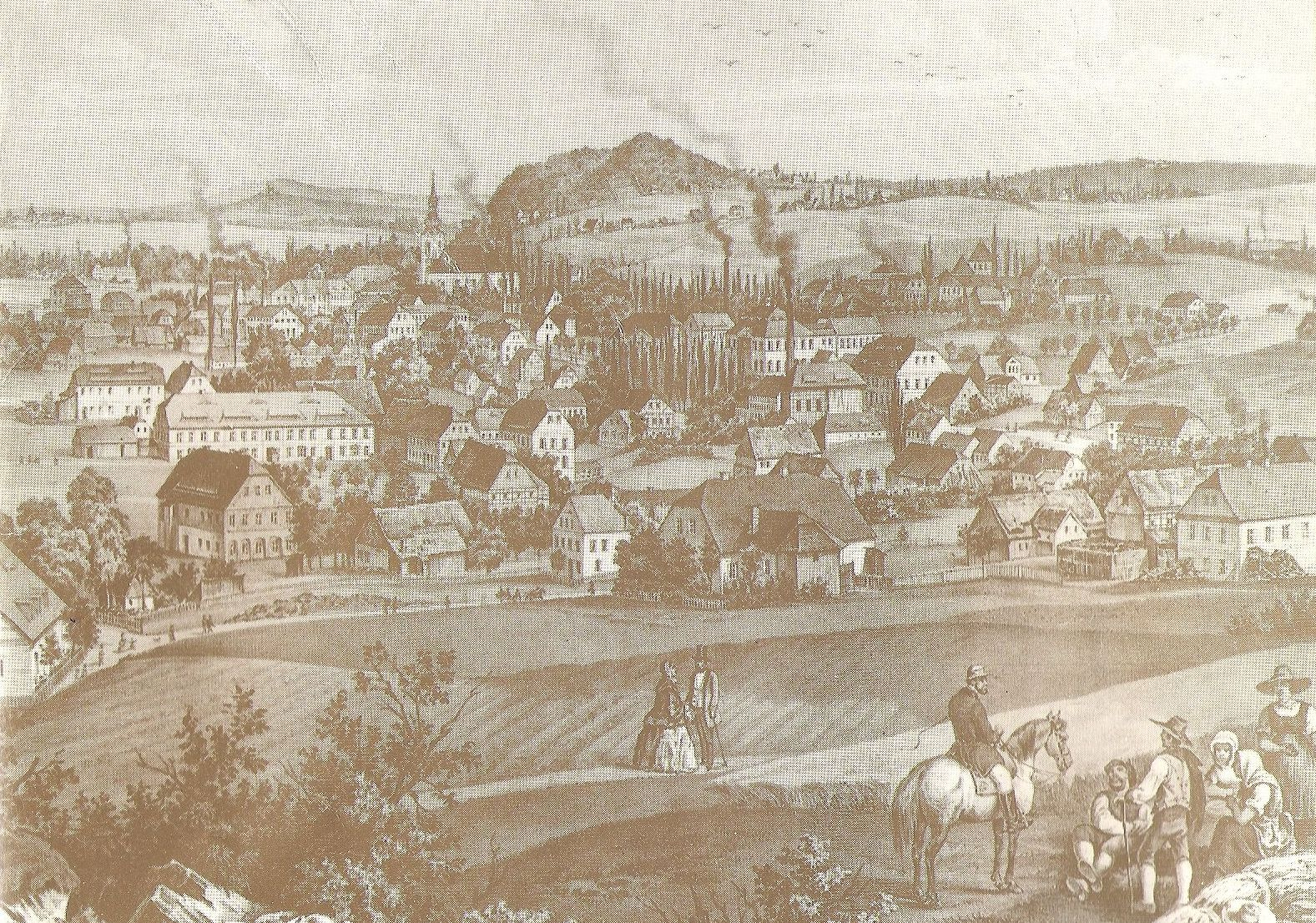 Celkový podhled na Varnsdorf kolem roku 1800